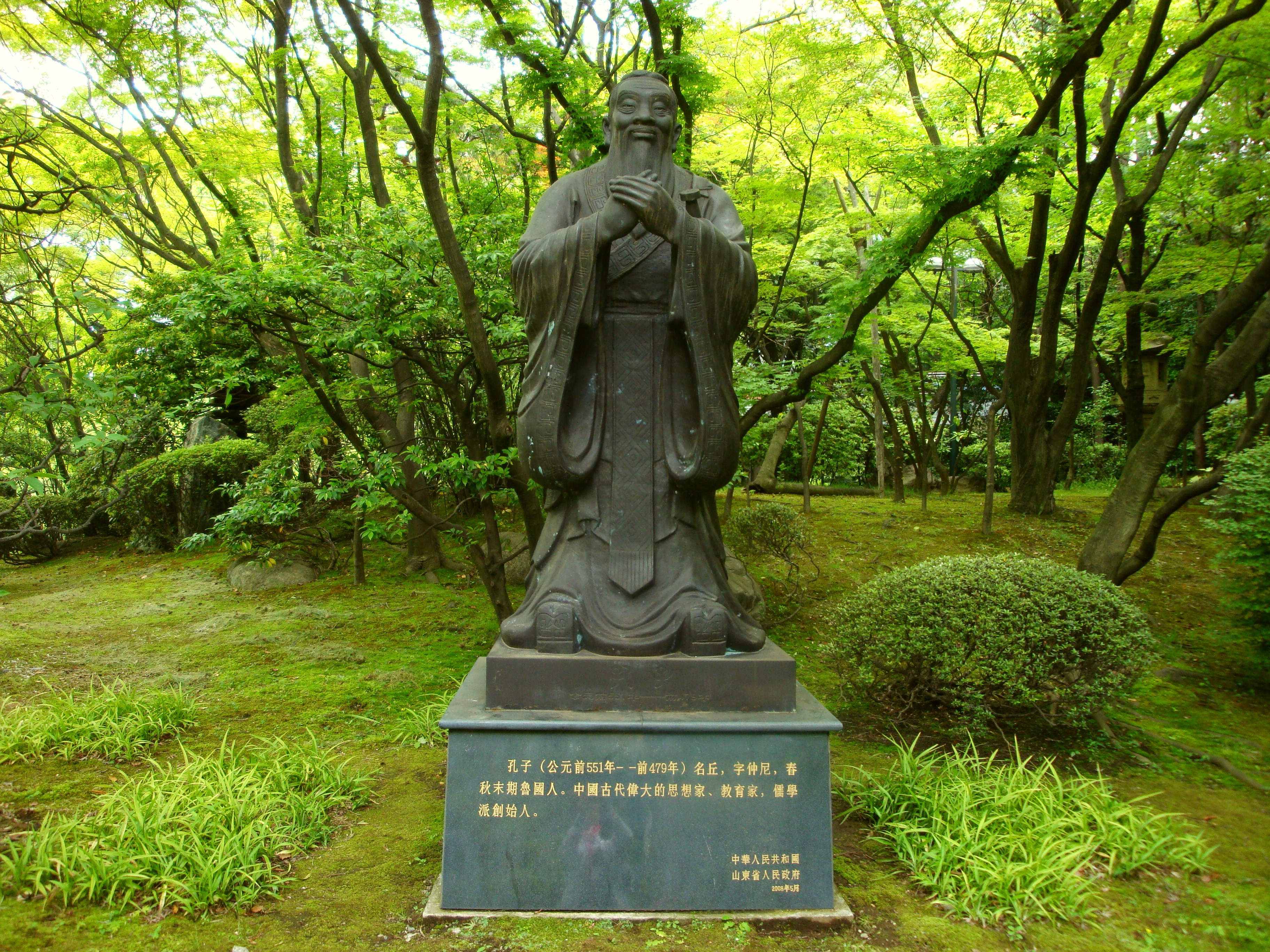 Confucius in the Okuma Garden